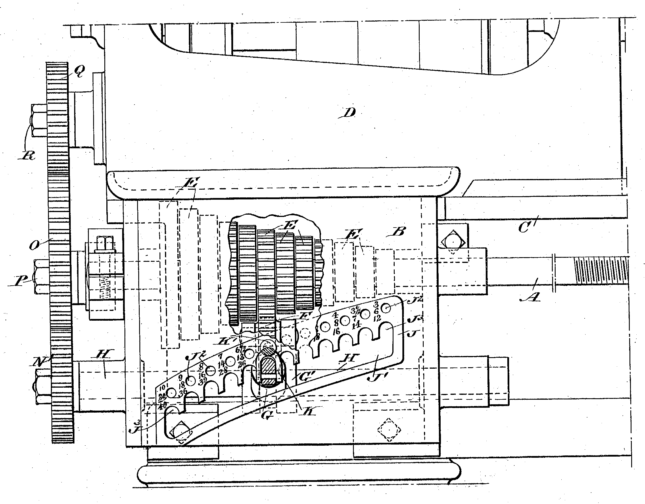 Feed mechanism for screw-cutting lathes User:MichaelFrey/US470591